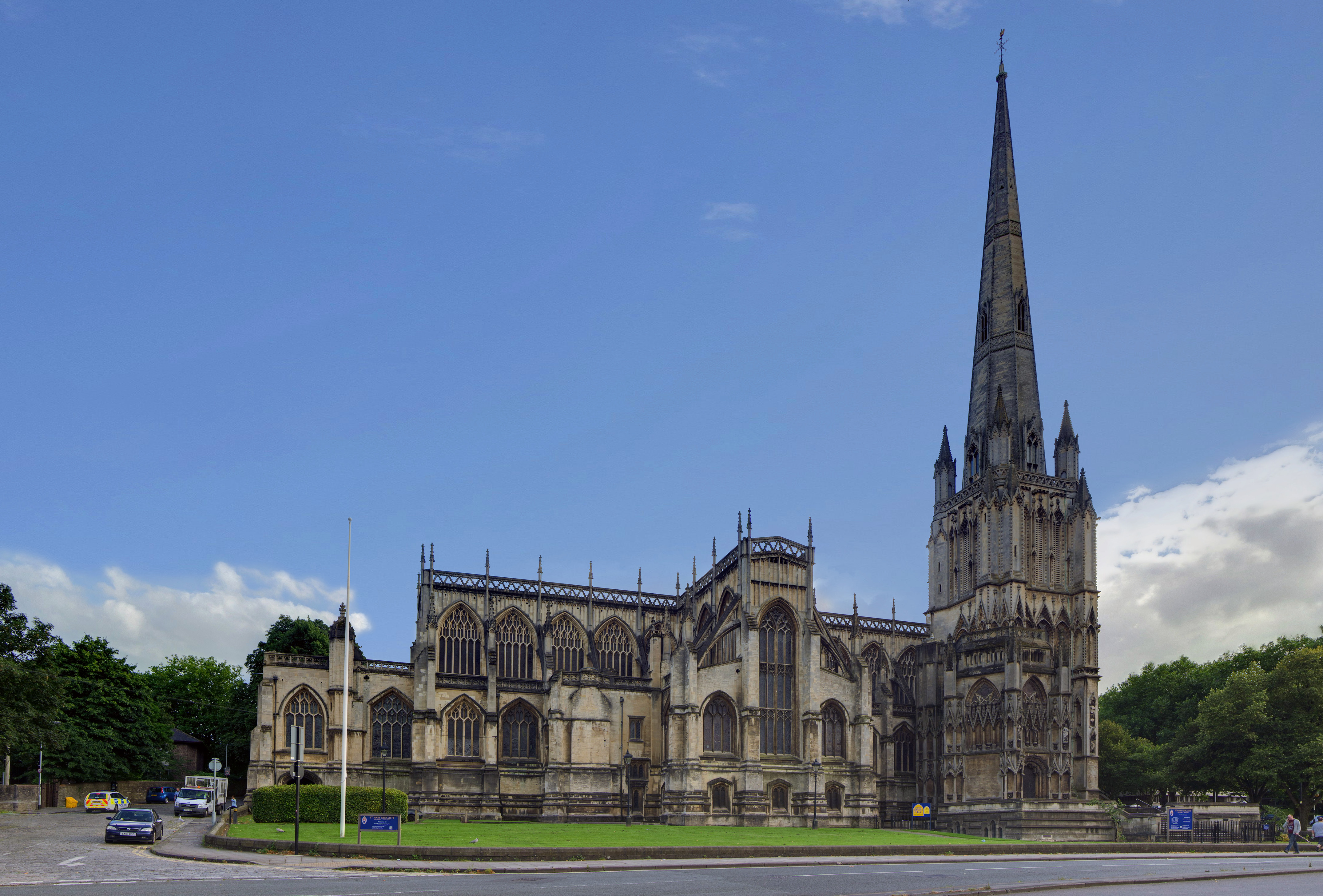 Panorama image of the St Mary Redcliffe church exterior.